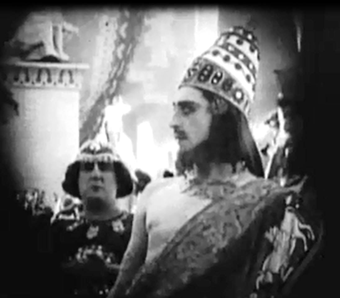 Low resolution screenshot from the public domain version of the film Intolerance (1916). Alfred Paget portrayed Prince Belshazzar in the Babylonian story of the film.